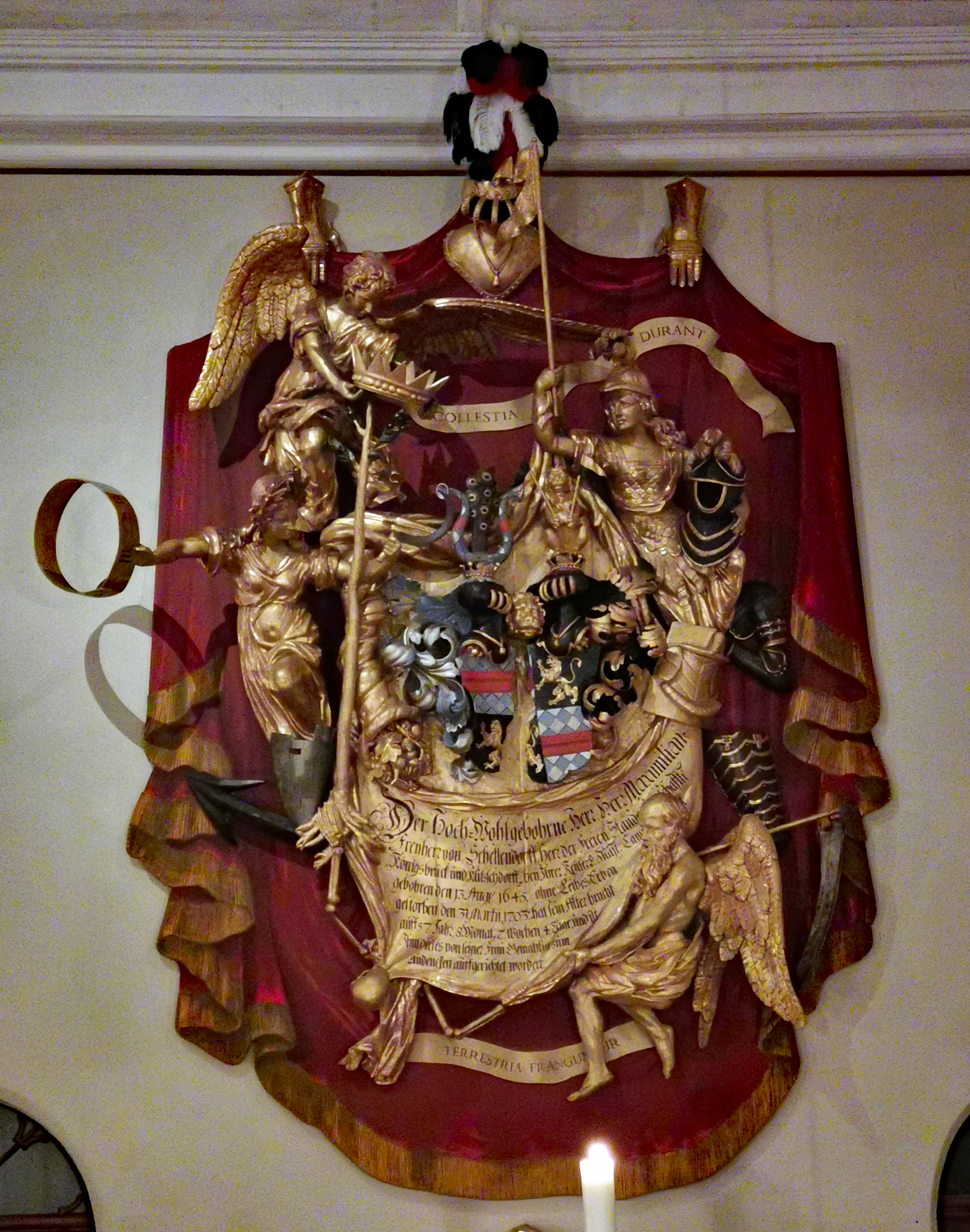 Epitaph Maximilian von Schellendorff (church Königsbrück, Saxony, Germany)